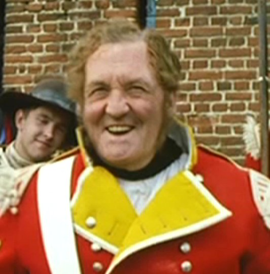 From a photograph in my collection taken by me on the set of 'Sharpe' in 1996.